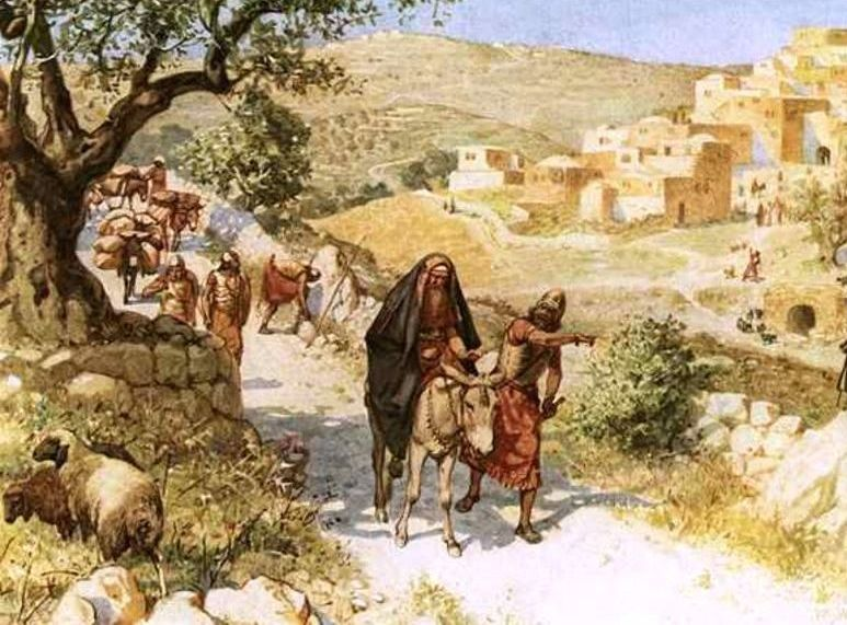 David fleeing from Jerusalem is cursed by Shimei